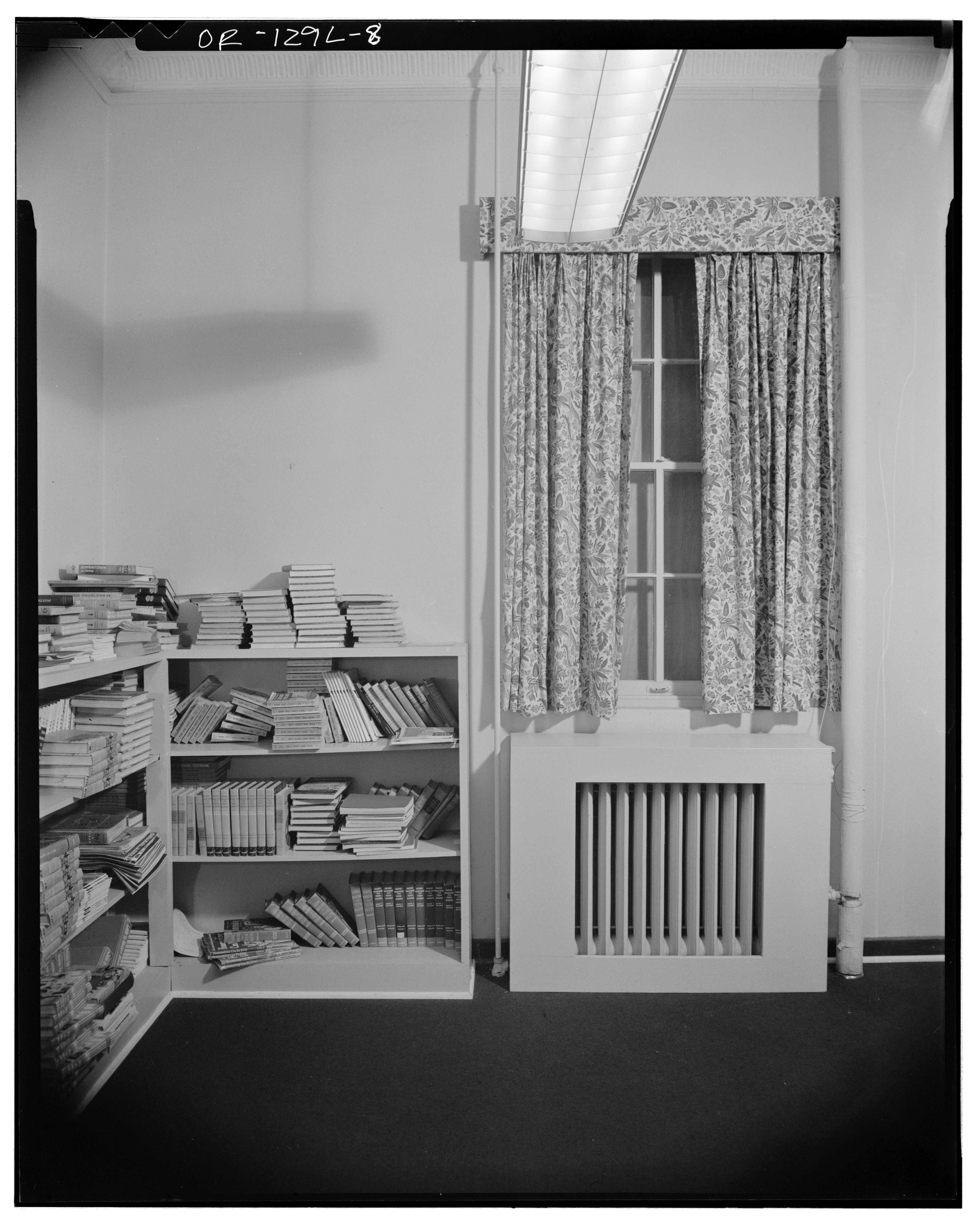 Chemawa Indian School, Hawley Hall, 5495 Chugach Street Northeast, Salem, Marion County, OR CALL NUMBER: HABS ORE,24-SAL,1L- CREATOR: Historic American Buildings Survey, creator NOTE: Survey number HABS OR-129-L DIGID: LOC card: "5495 Chugach St., N.E. Brick with concrete and wooden trim, rectangular with rear ell 90' (five-bay front) x 48', wing 32' x 54', connector 13' x 14', two-and-a-half stories hip roof with exposed rafters at eaves, hip dormers, three-bay hip-roof entrance porch with paired columns; dormitory, pressed metal ceilings. Built 1924; alterations to provide home economics classrooms, n.d; second floor altered for science lab, 1966; demolished, 1978. 6 ext. photos (1977) 3 int. photos (1977). Also see Chemawa Indian School (OR-129). Card prepared 1979" Author information not found, but presumed to be Steve Viale.